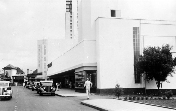 Cars in front of the Art Deco DENIS bank building — in Bandung, West Java